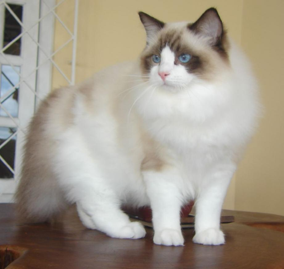 Ragdoll from Gatil Ragbelas cattery in Brazil. Cropped from source listed below.